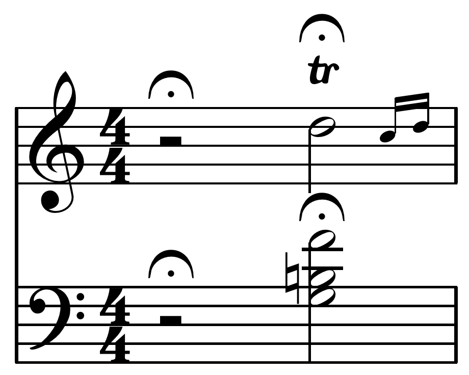 Cadenza from Beethoven's Concerto in C minor, piano part.